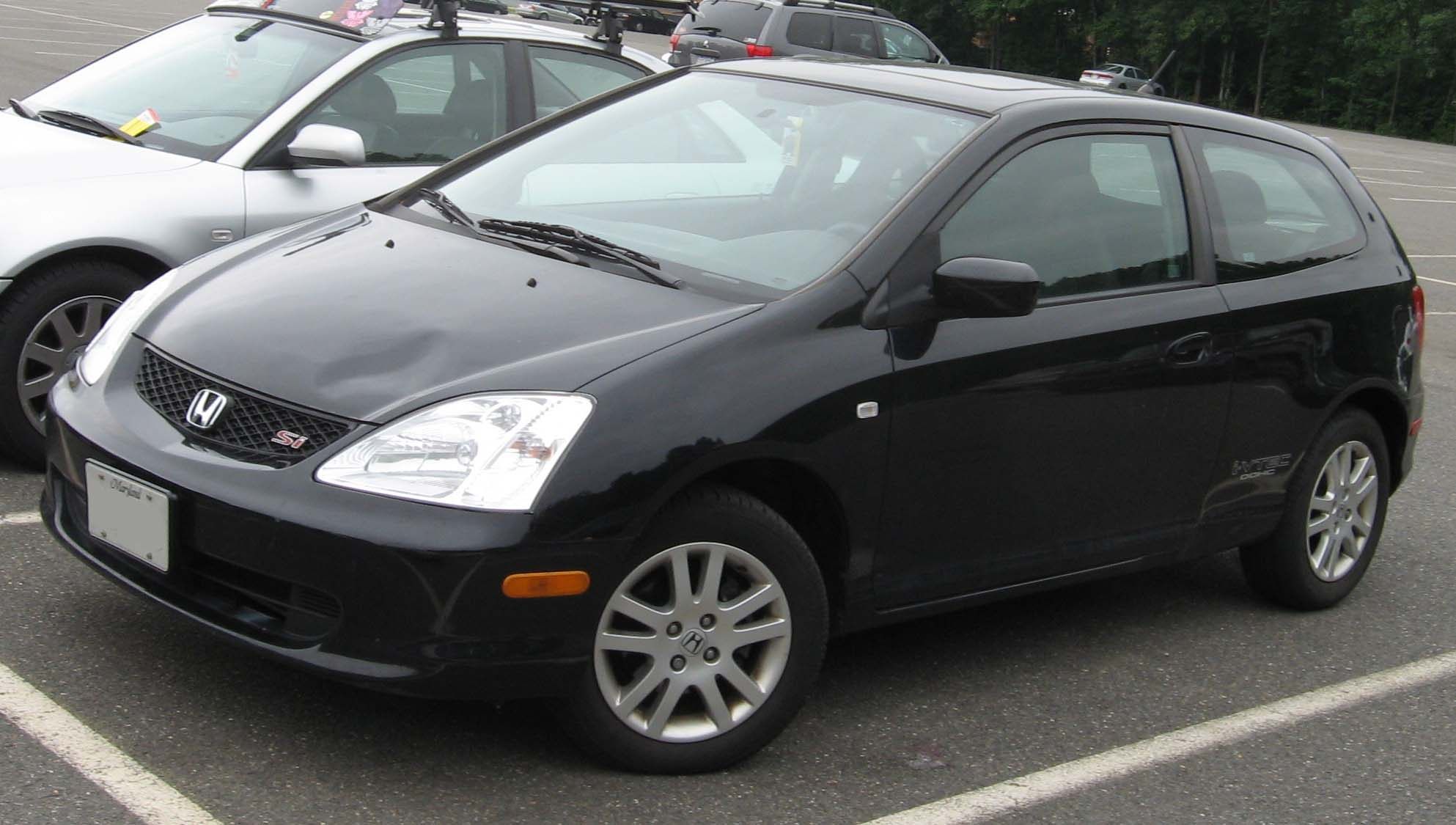 2002-2003 Honda Civic photographed in USA.